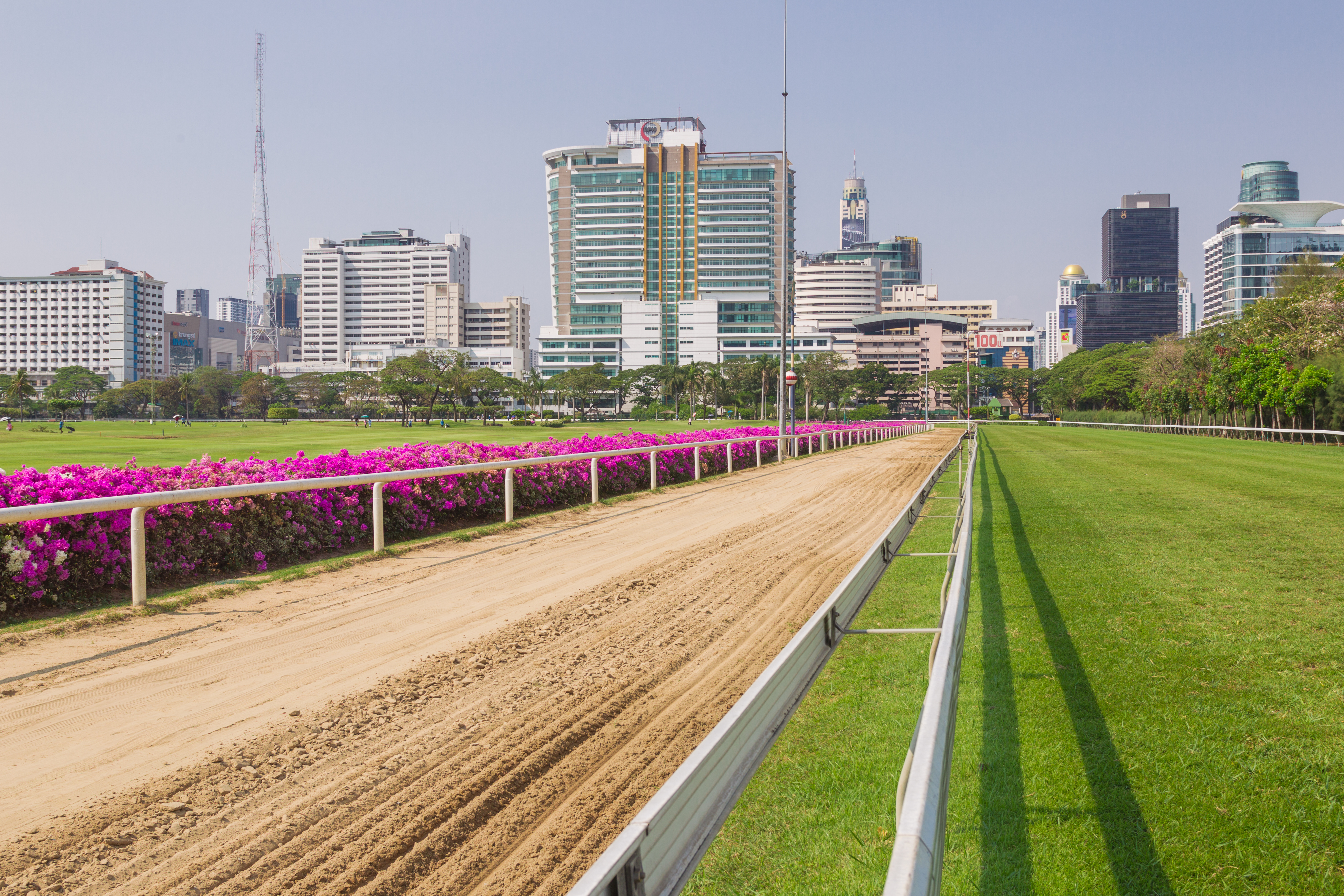 Royal Bangkok Sports Club, Bangkok.